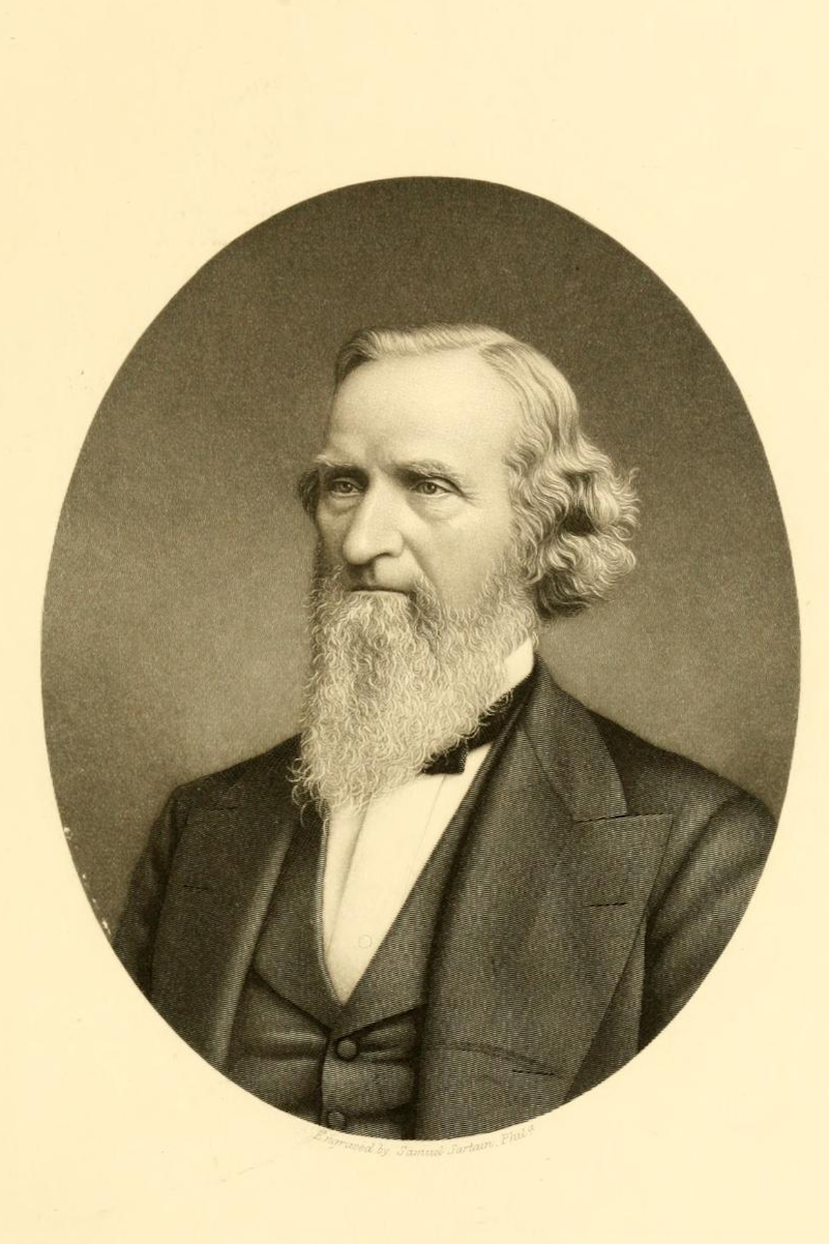 United State Congressman from New York